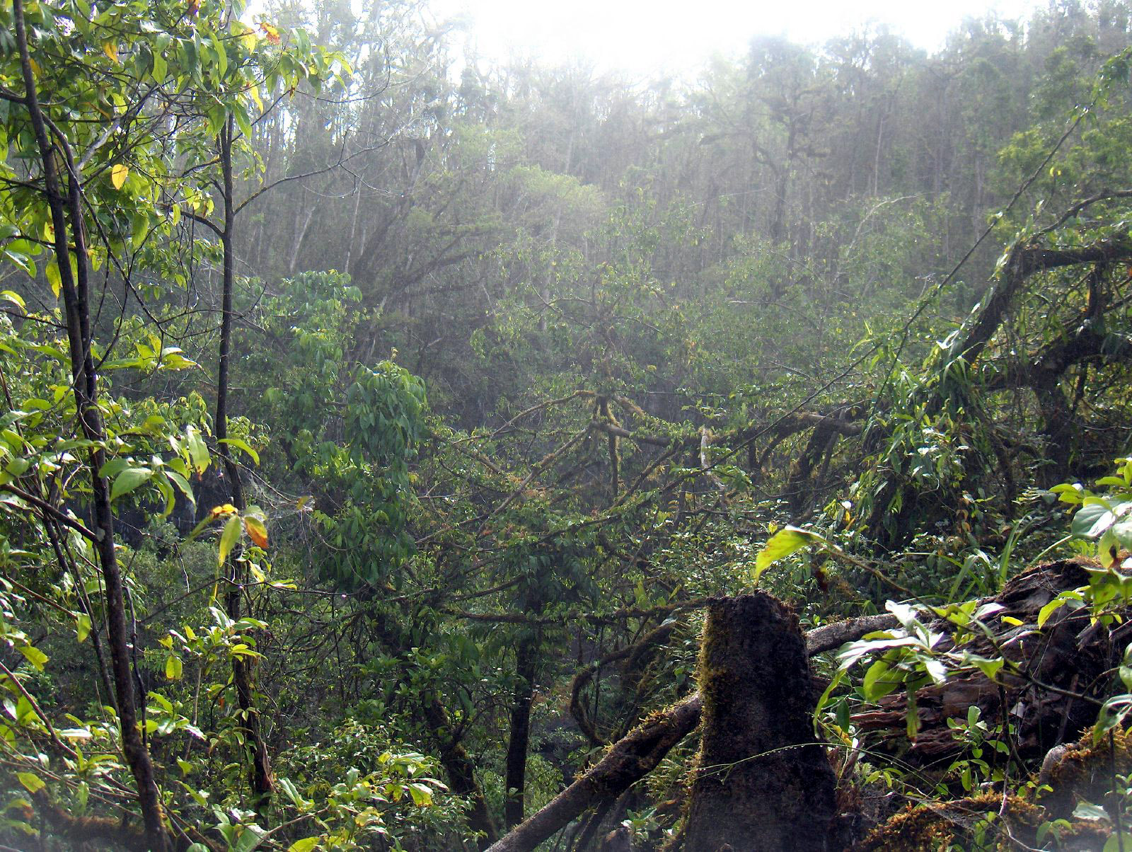 Rainforest - Atherton Tableland, Queensland, Australia